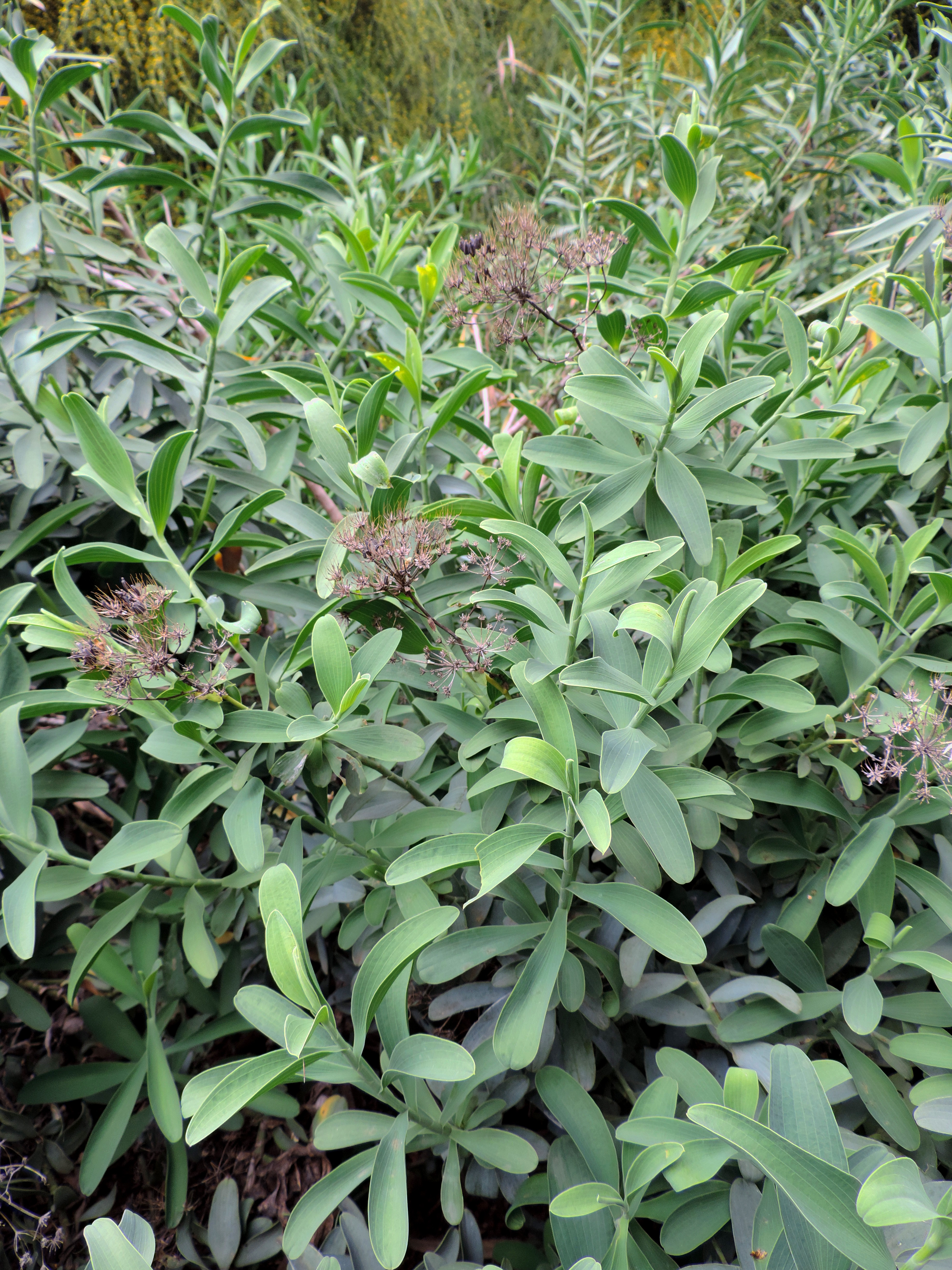 Bupleurum handiense in Jardín Botánico Canario Viera y Clavijo